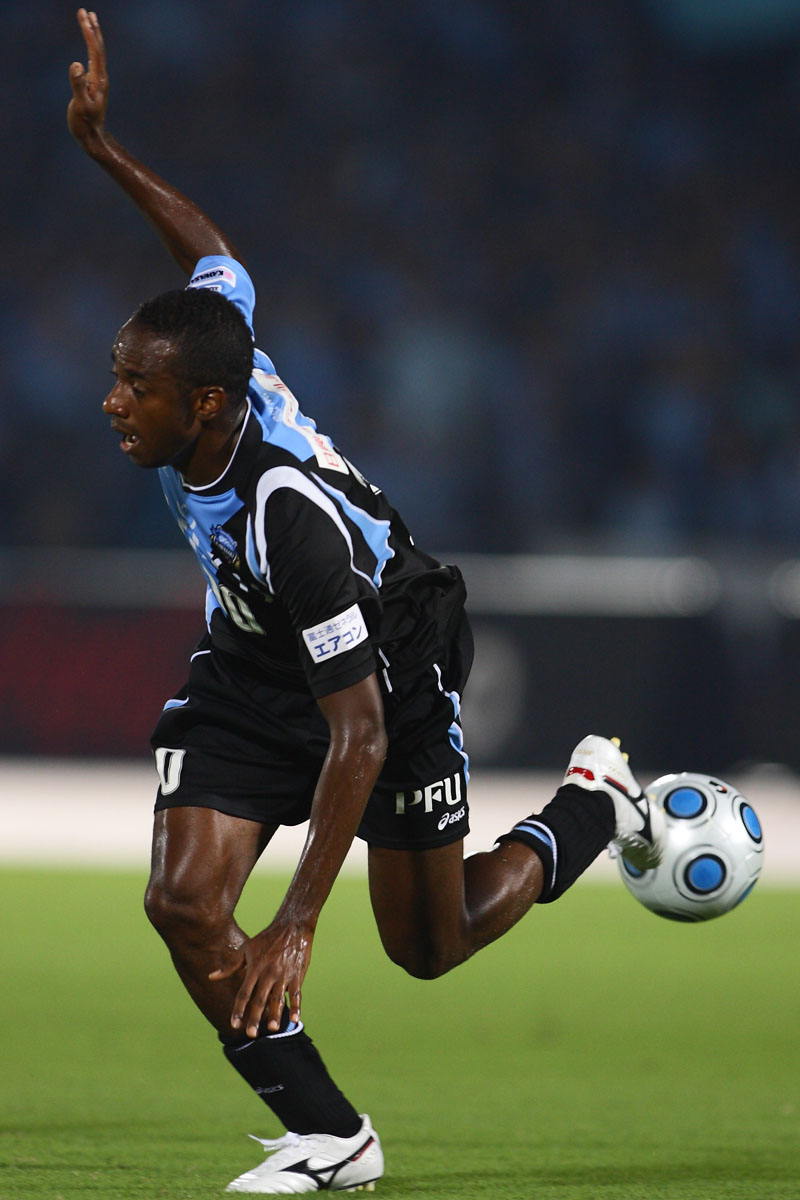 AUGUST 1, 2009 - Football : Juninho, a.k.a. Carlos Alberto Carvalho dos Anjos Junior of Kawasaki Frontale in action during the J.League Division 1 match against FC Tokyo at Todoroki Stadium on August 1, 2009 in Kanagawa, Japan. (Photo by Tsutomu Takasu)